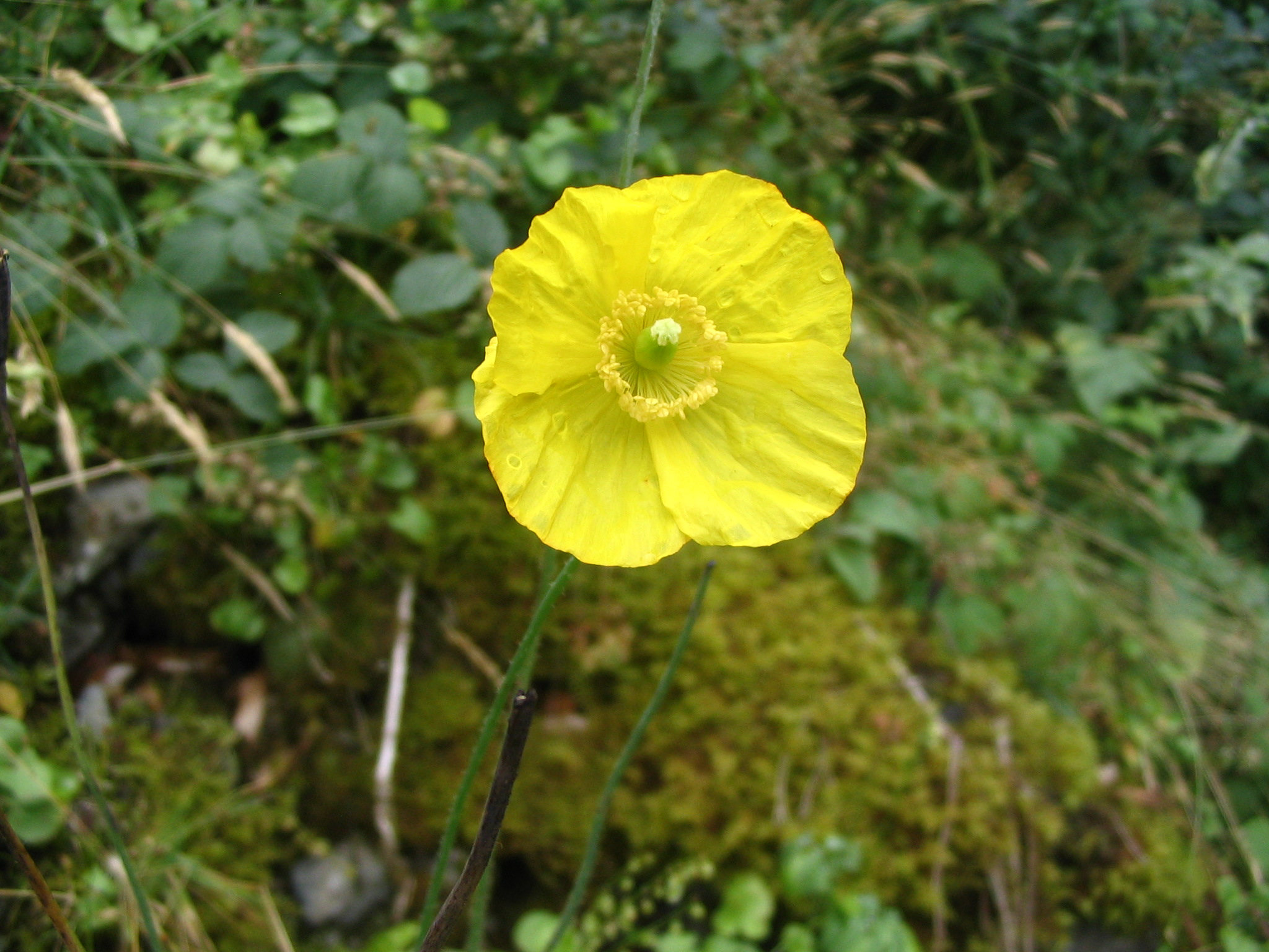 Meconopsis cambrica